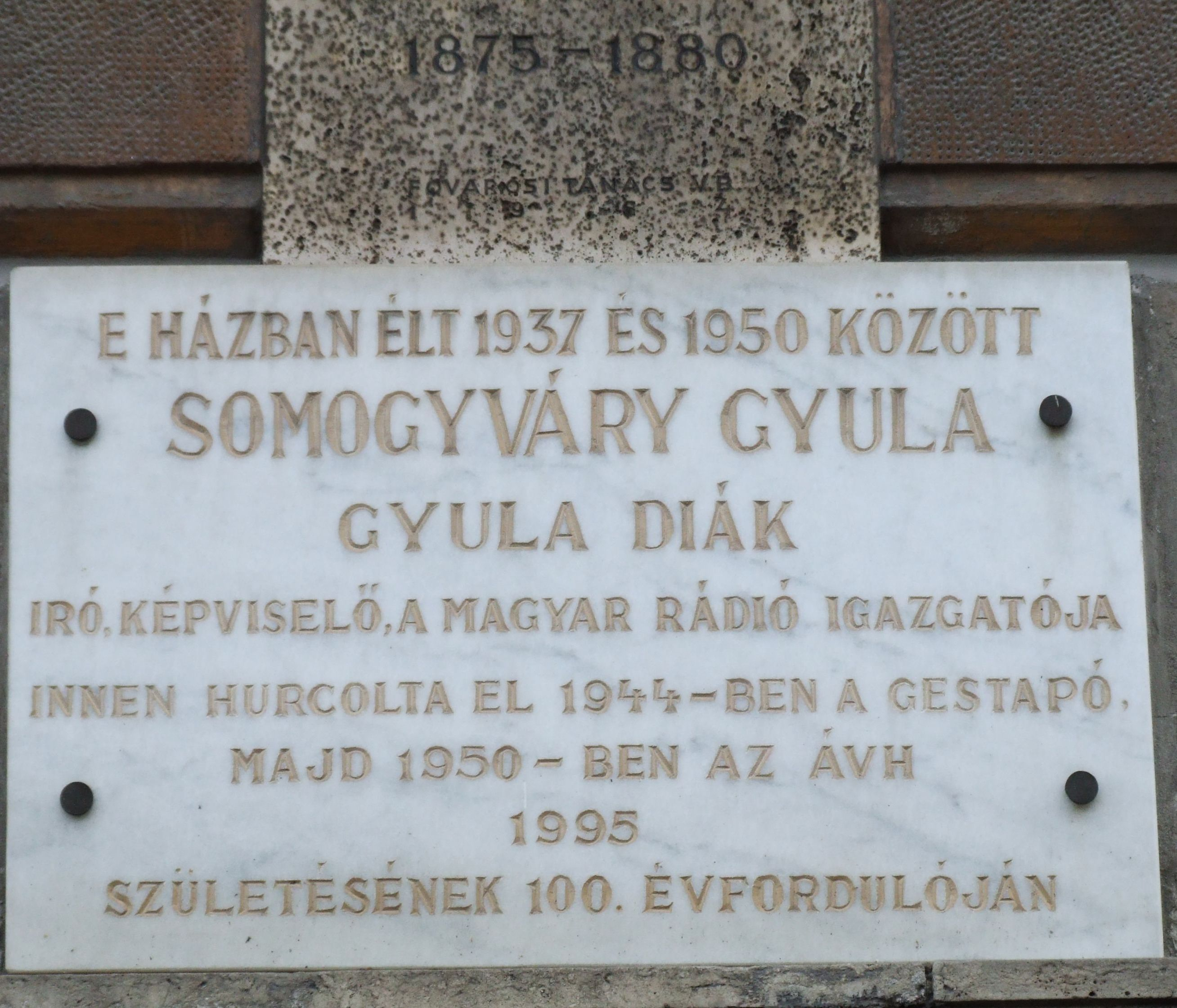 Gyula Somogyváry commemorative plaque in Budapest District I, Ybl Miklós Square No 2